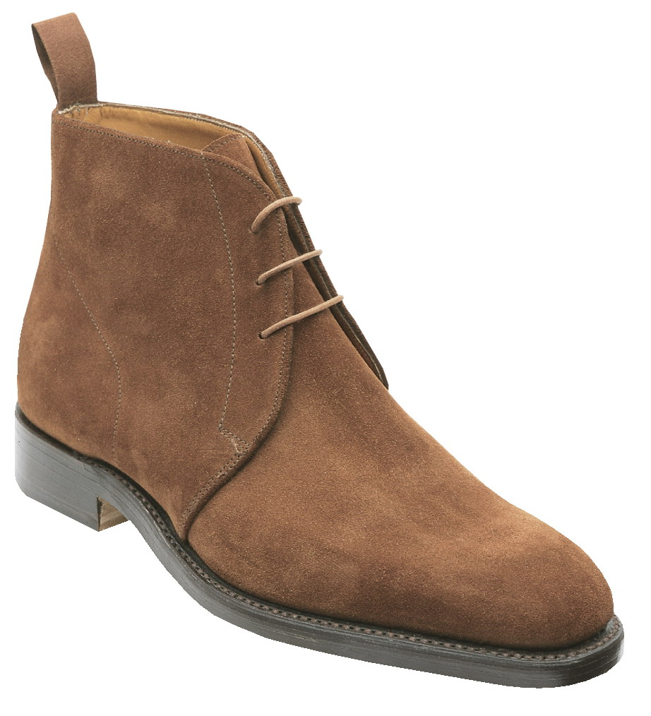 George-Boot Mod. Carson from Grenson